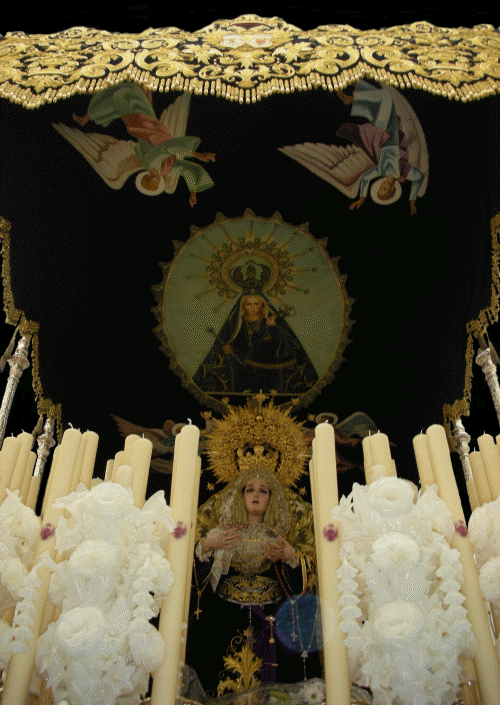 María Santísima del Mayor Dolor